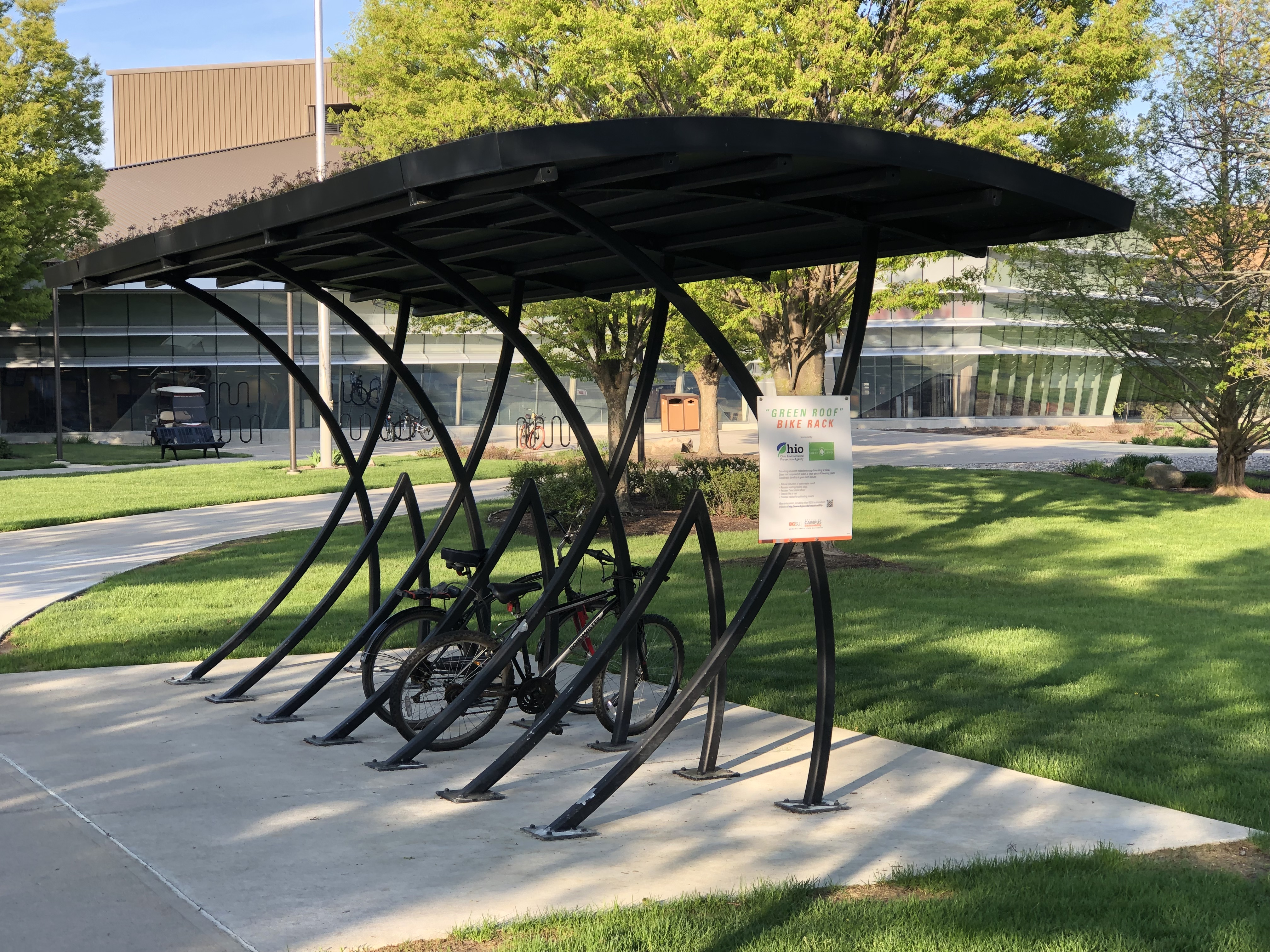 A green roof bike rack at BGSU. The roof contains plants that absorb some of the rain water.